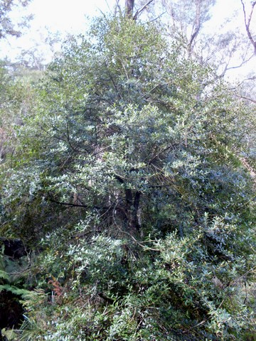 Elaeocarpus holopetalus, Leura